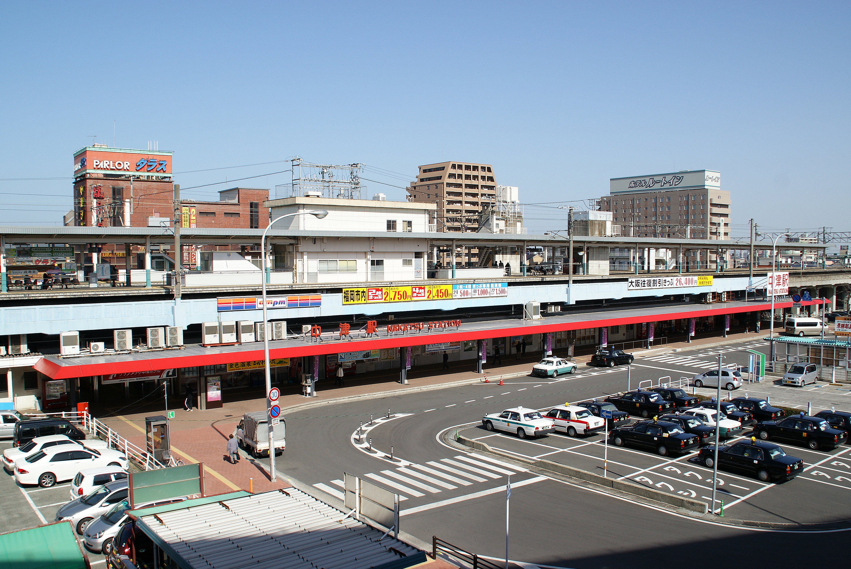 Kyushu Railway, Nakatsu Station.(Nakatsu City, Oita Prefecture, Japan)